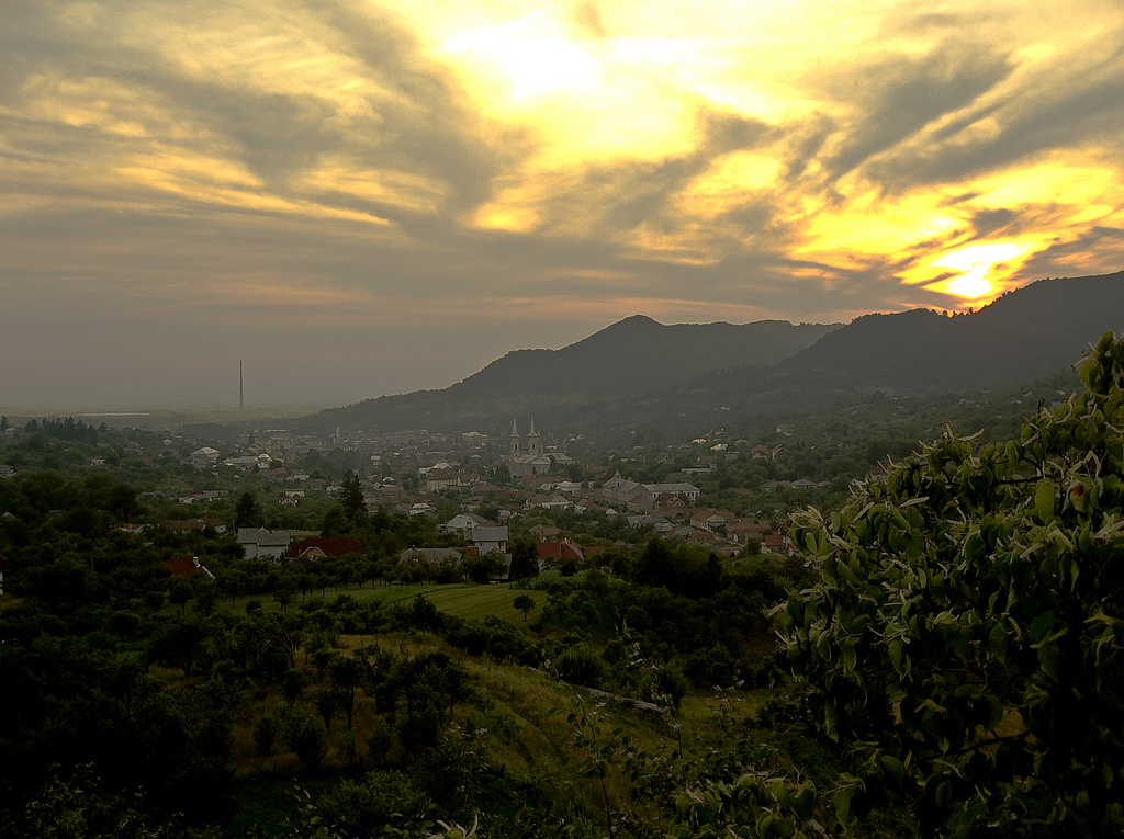 Baia Sprie